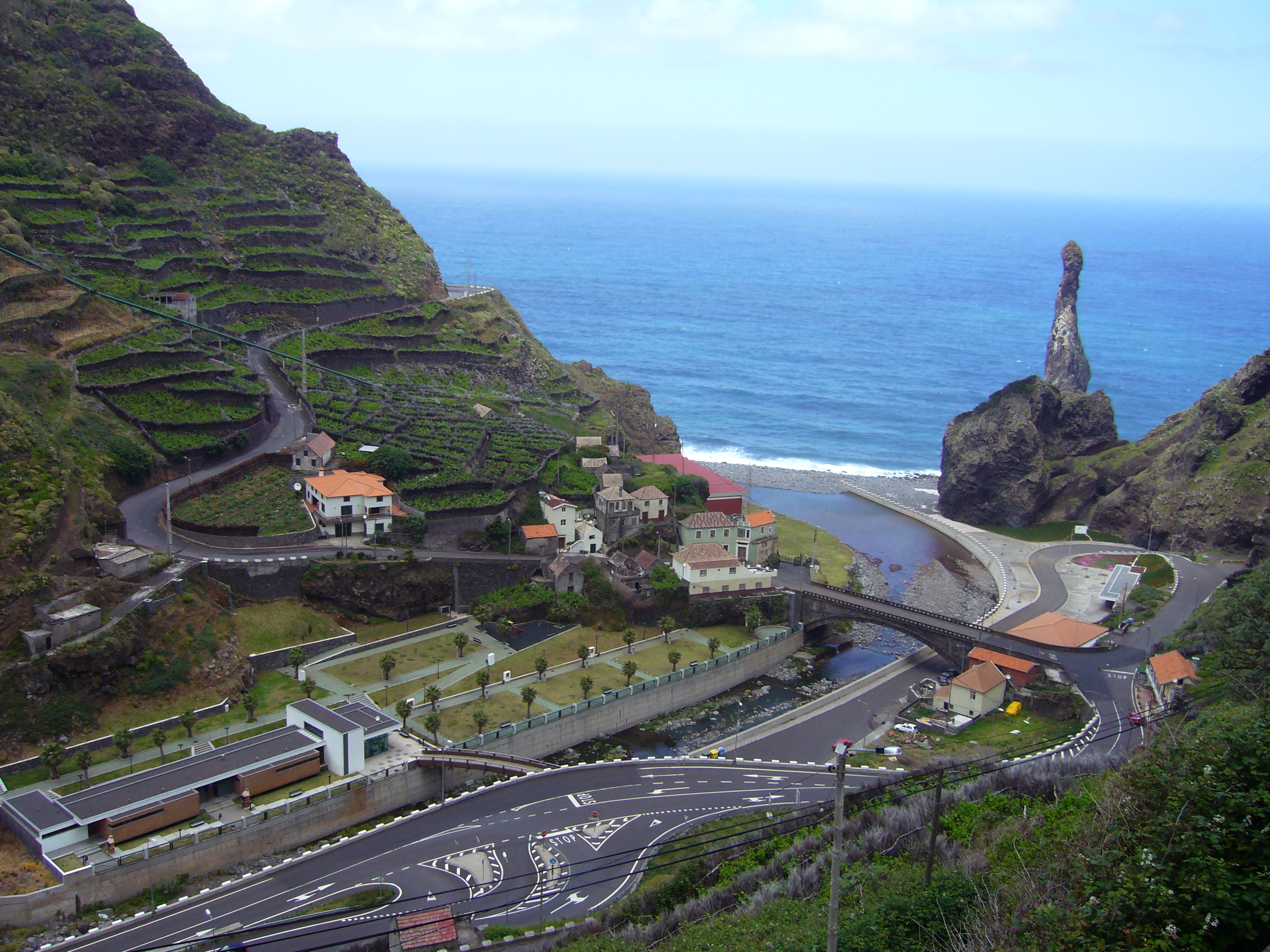 Ribeira da Janela estuary.